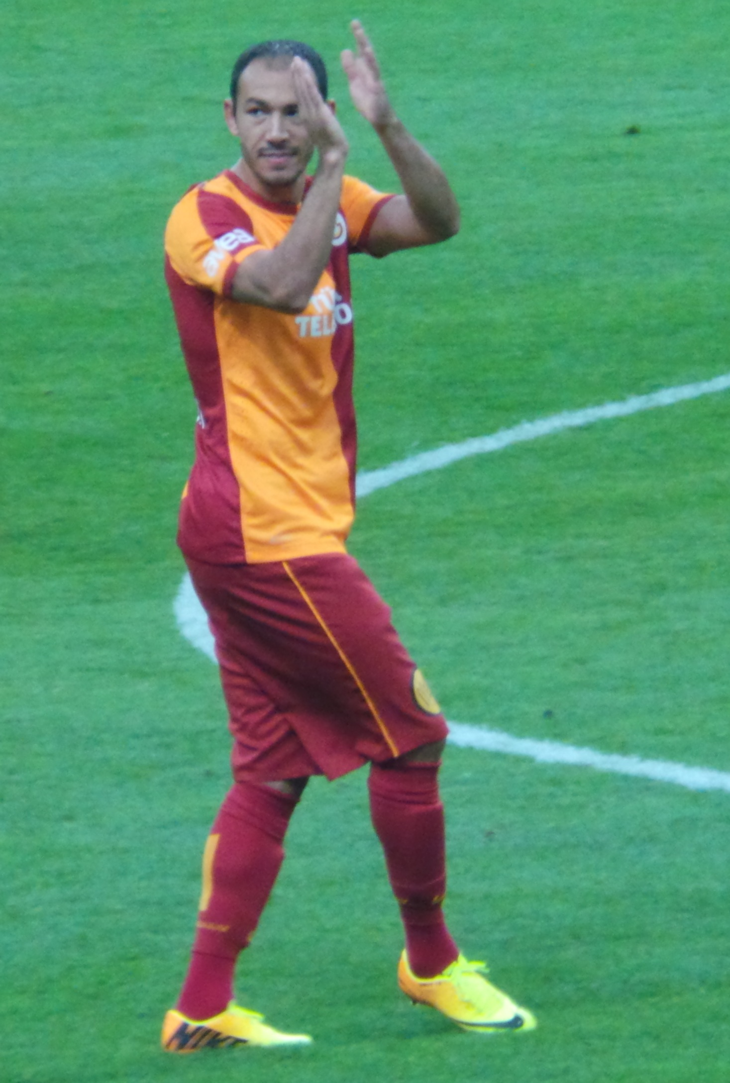 Umut with Galatasaray